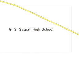 Satpati